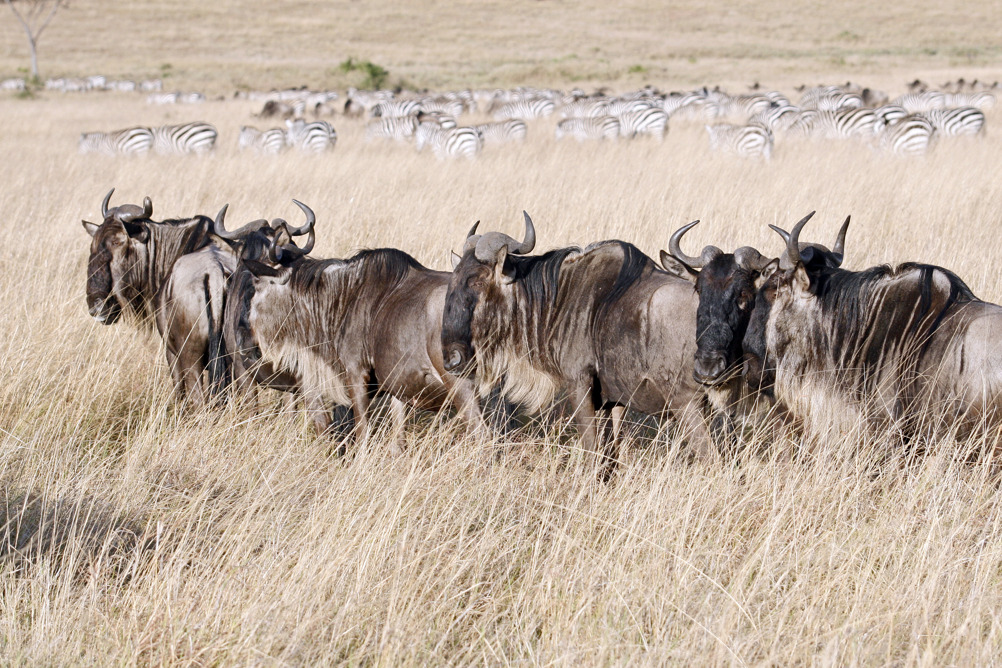 Wildebeests in the Masaai Mara .